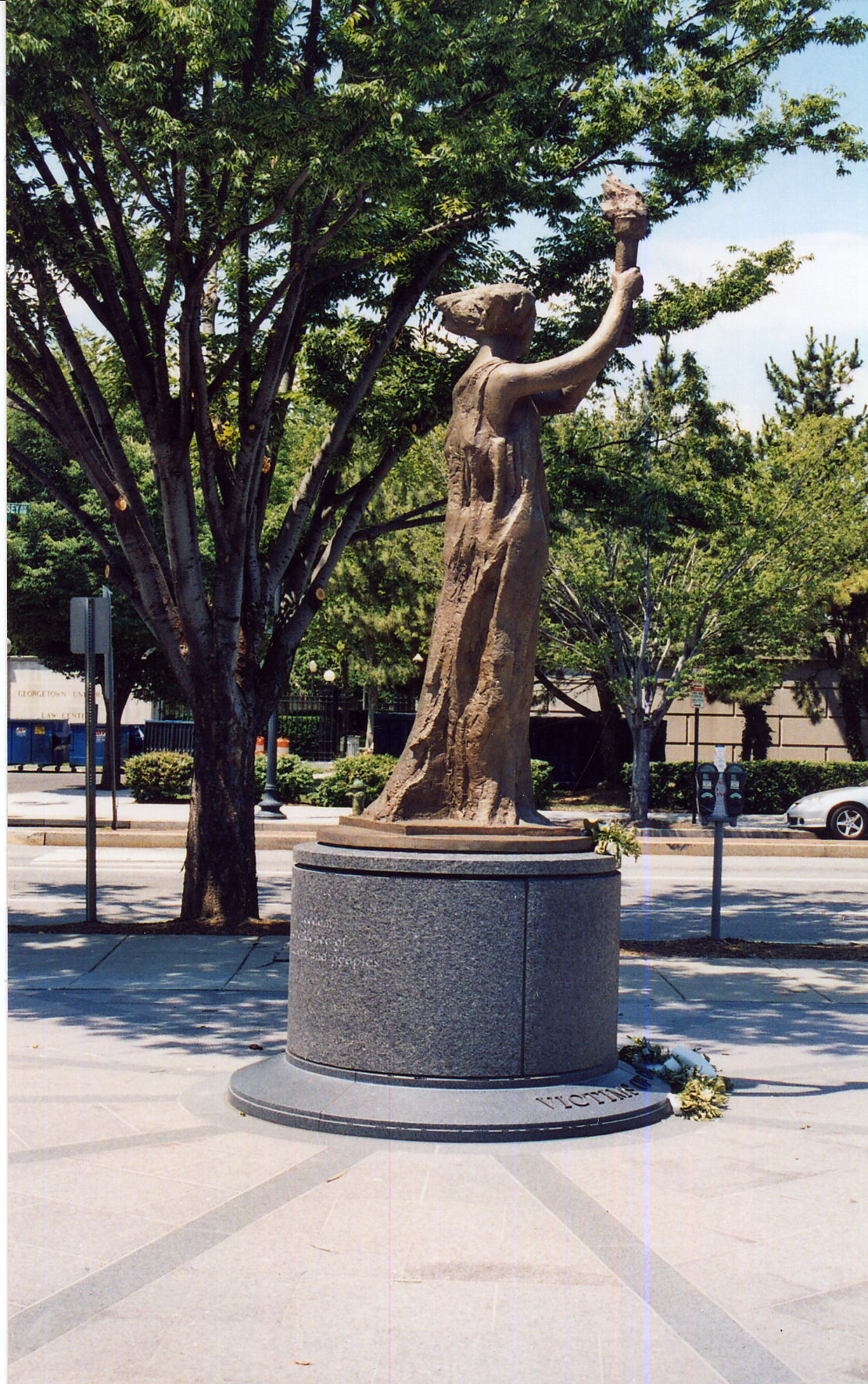 Picture of the Victims of Communism Memorial - Washington, D.C. presenting a replica of the Statue of the Goddess of Democracy in Washington DC.